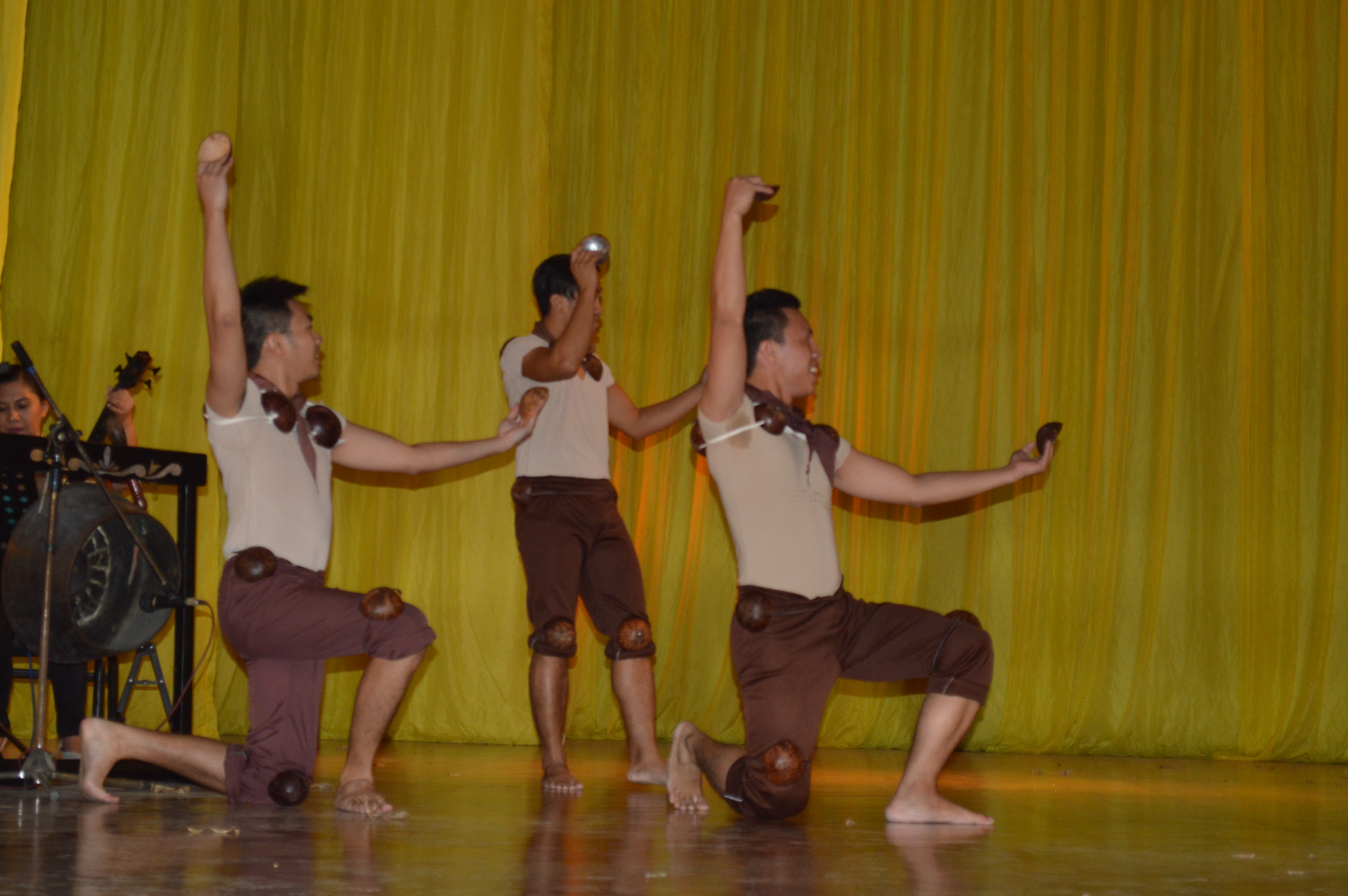 This is an image of music and dance from Egypt